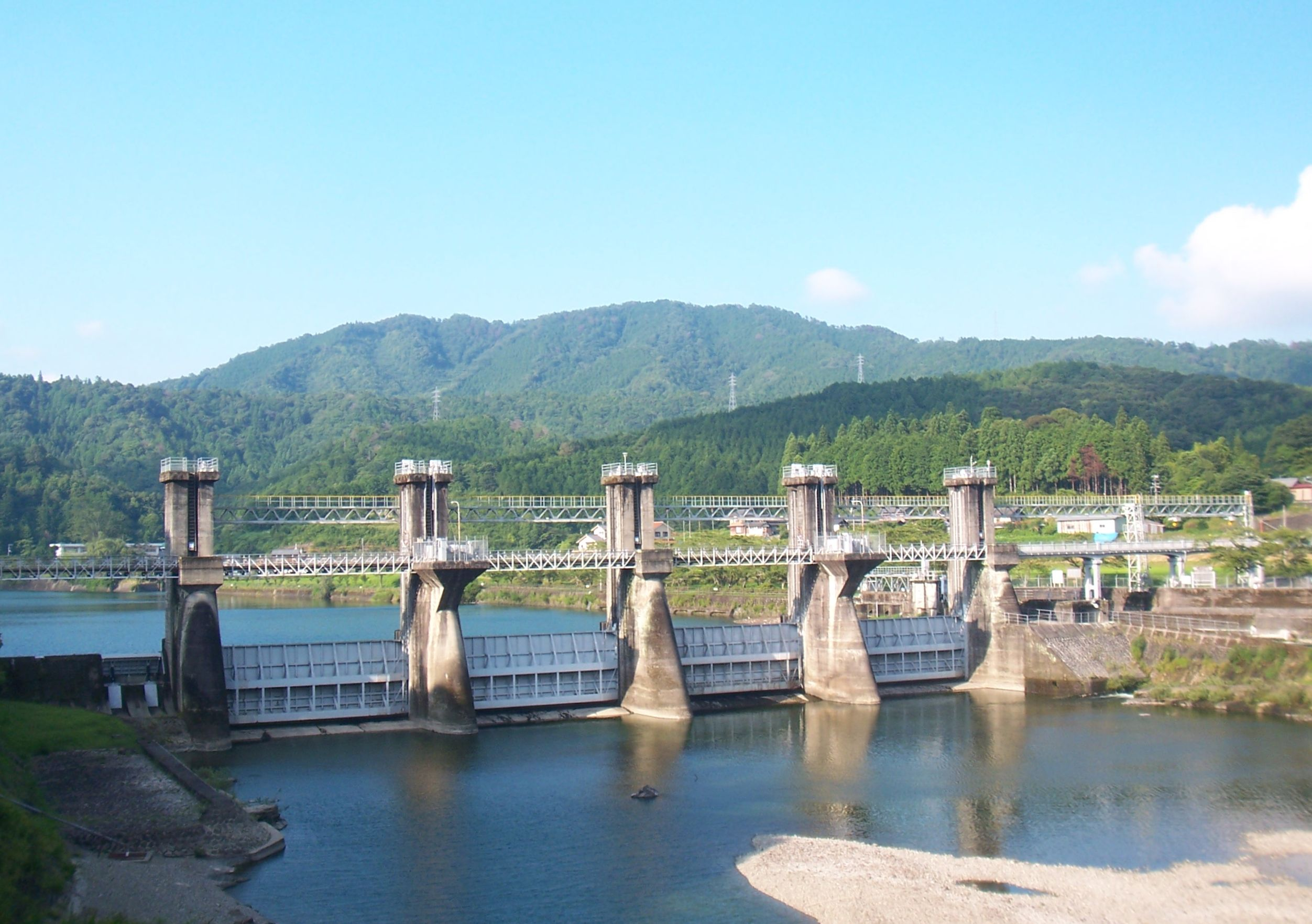 Iedigawa dam, Kochi prefecture, Japan.